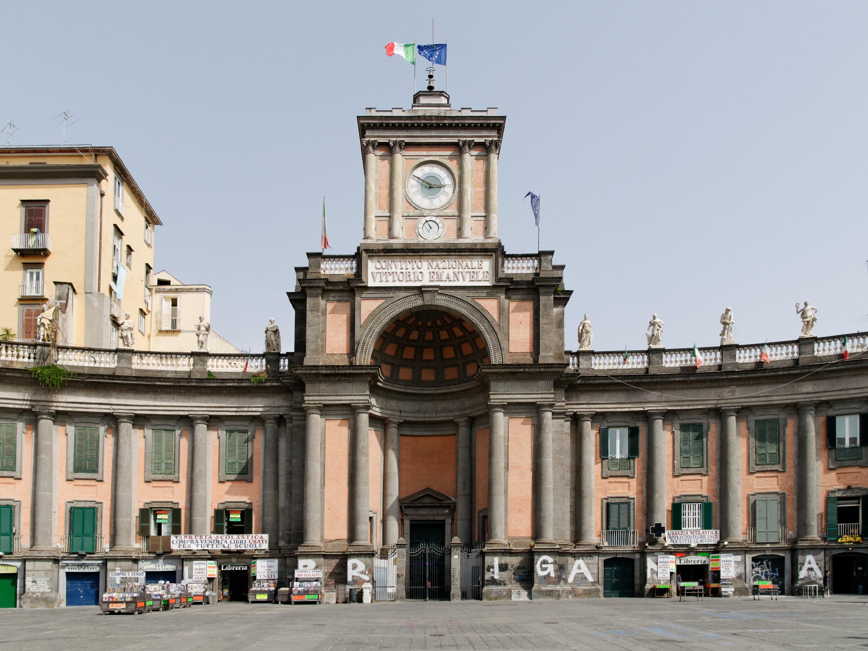 Piazza Dante, Naples.